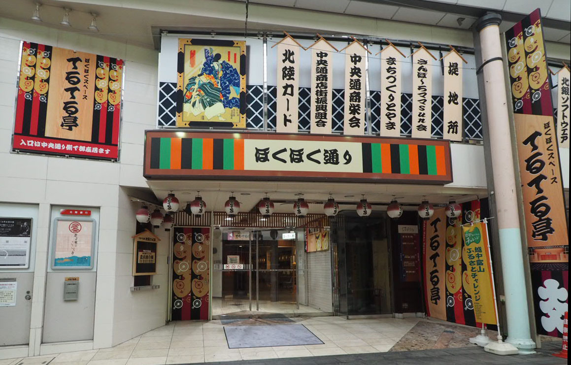 Teruteru-teh, a hall at Chuoh-Dohri in Toyama, Japan